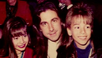 Sandy, Junior e Sergio Carrer